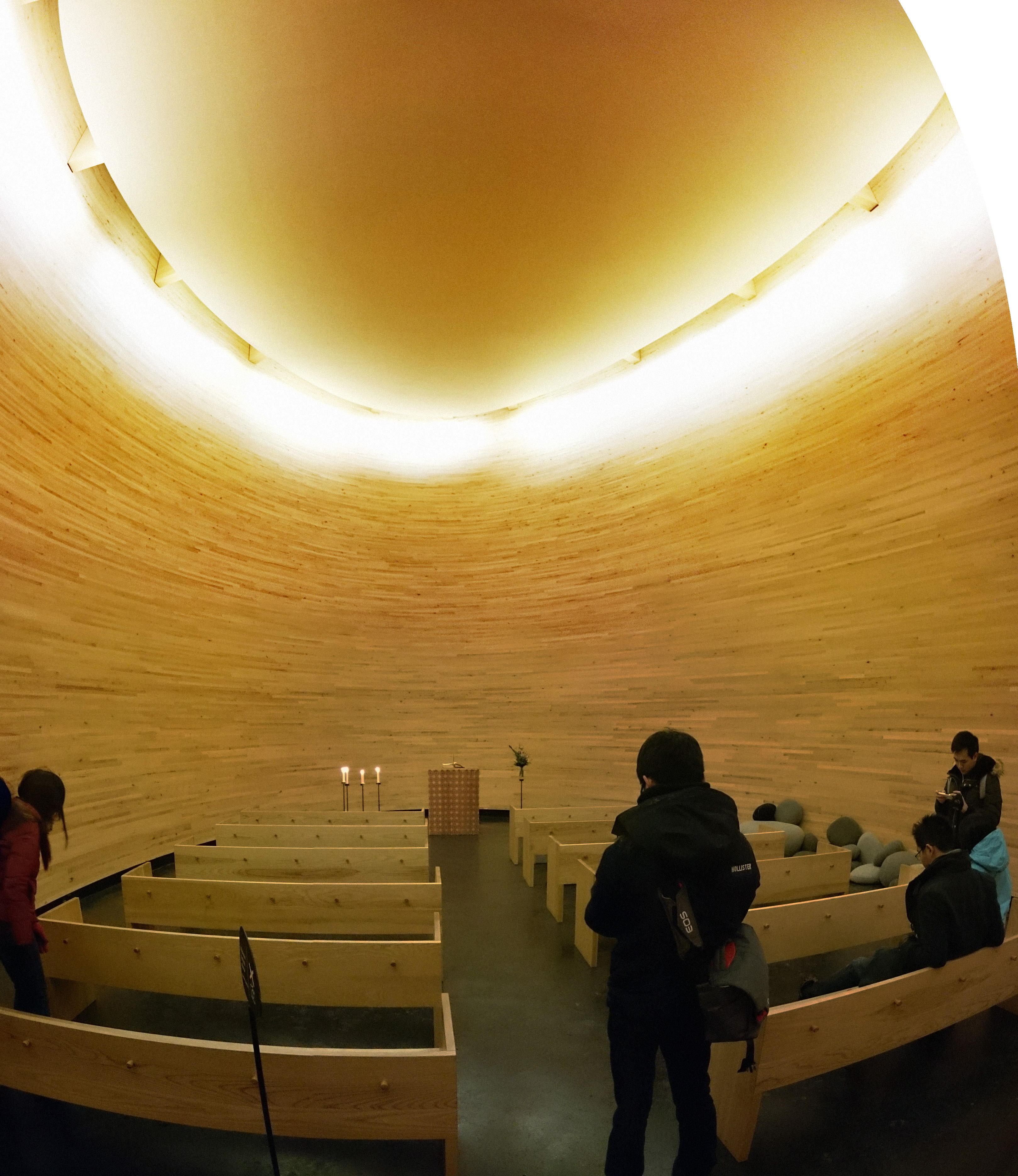 Kamppi Chapel is a Lutheran chapel in Kamppi, Helsinki, located on the Narinkka Square.